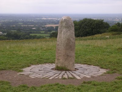 Hill of Tara - the standing stone. Author: Przemysław Sakrajda (Jul. 2005)